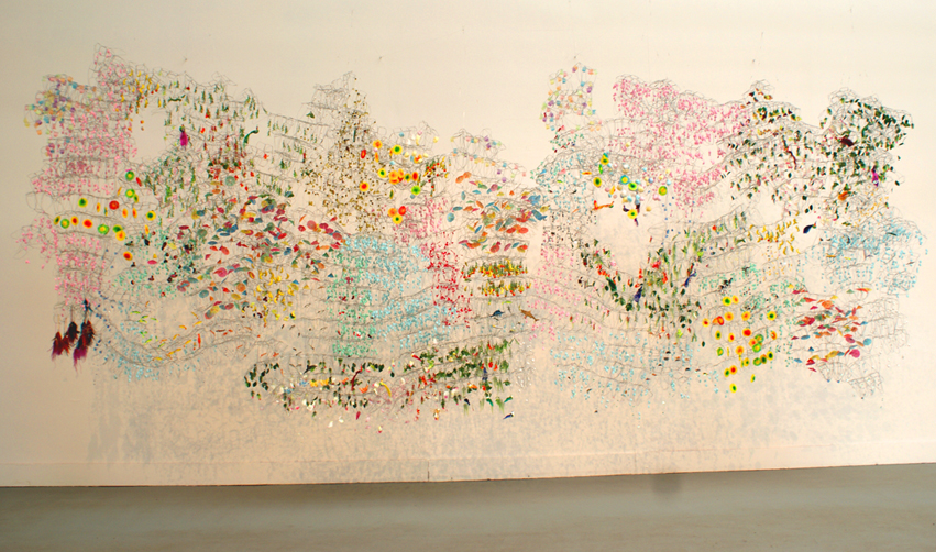 Mapping instalation of the landscapes attached to the living of a particular house in Madrid. This artwork was exhibited during 2010 International Architecture Exhibition of Venice.